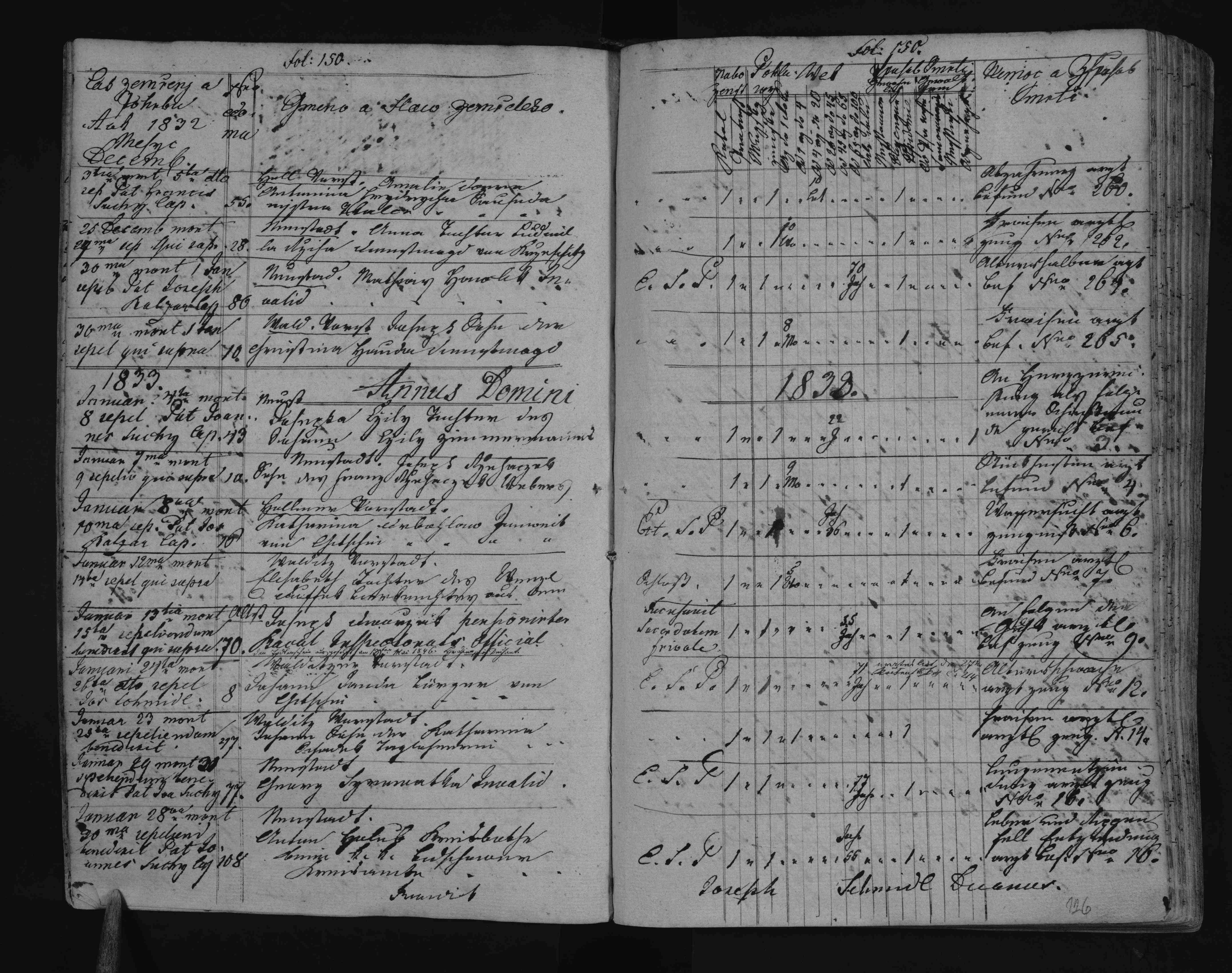 Page from a parish register of deaths in Jičín, Czech Republic, showing (among others) the record of Ms. Josefka Čilá, who was murdered on 4 January 1833 at the age of 22 years.